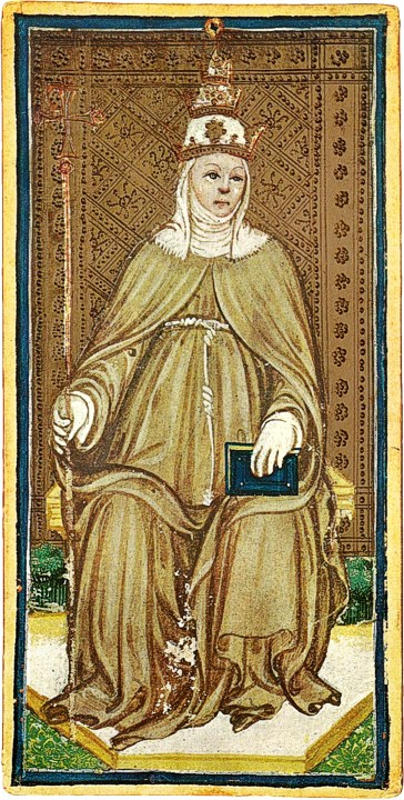 The Popess card from the Visconti-Sforza Tarot deck.